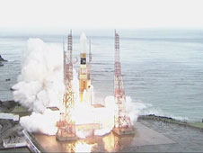 The H-IIB launch vehicle carrying Japan's Kounotori cargo craft lifts off from the Tanegashima Space Center.